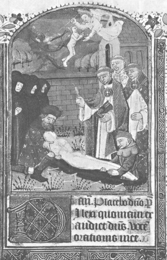 Image of the soul in the Stundenbuch für eine unbekannte Dame.